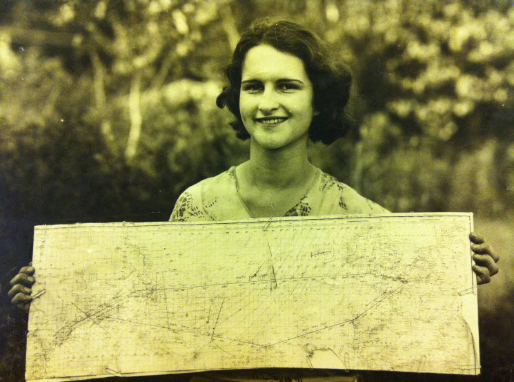 Louise Stef holding the map dropped by Dieudonné Costes and Maurice Bellonte during their transatlantic flight on the Point d'Interrogation